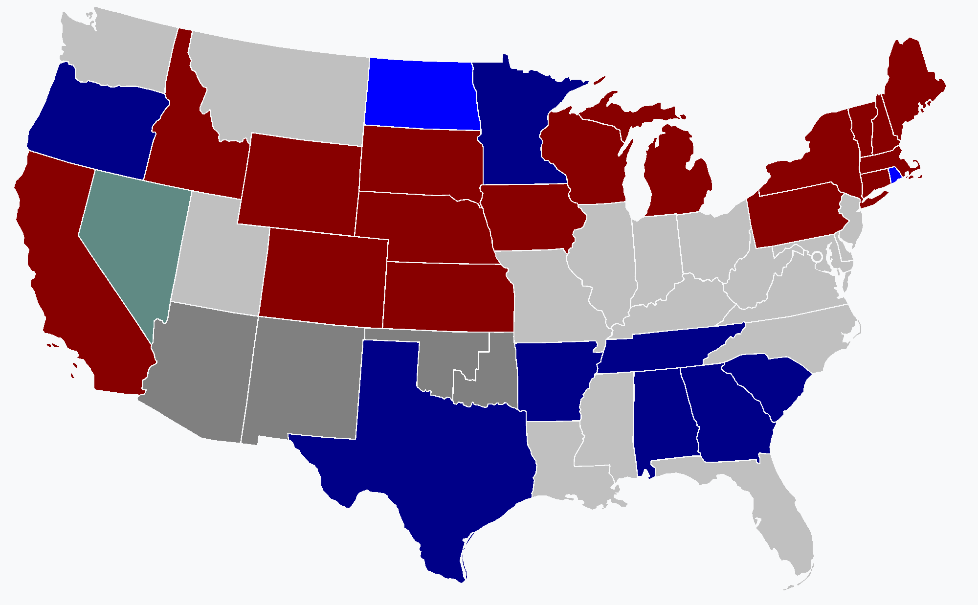 A map showing the results of the 1906 United States Gubernatorial elections